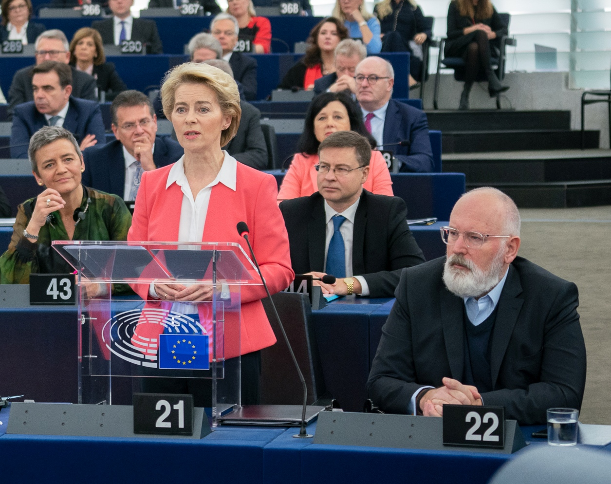 Parliament to vote on new European Commission (49131215863): cropped. This photo is free to use under Creative Commons license CC-BY-4.0 and must be credited: "CC-BY-4.0: © European Union 2019 – Source: EP". No model release form if applicable. For bigger HR files please contact: webcom-flickr(AT)